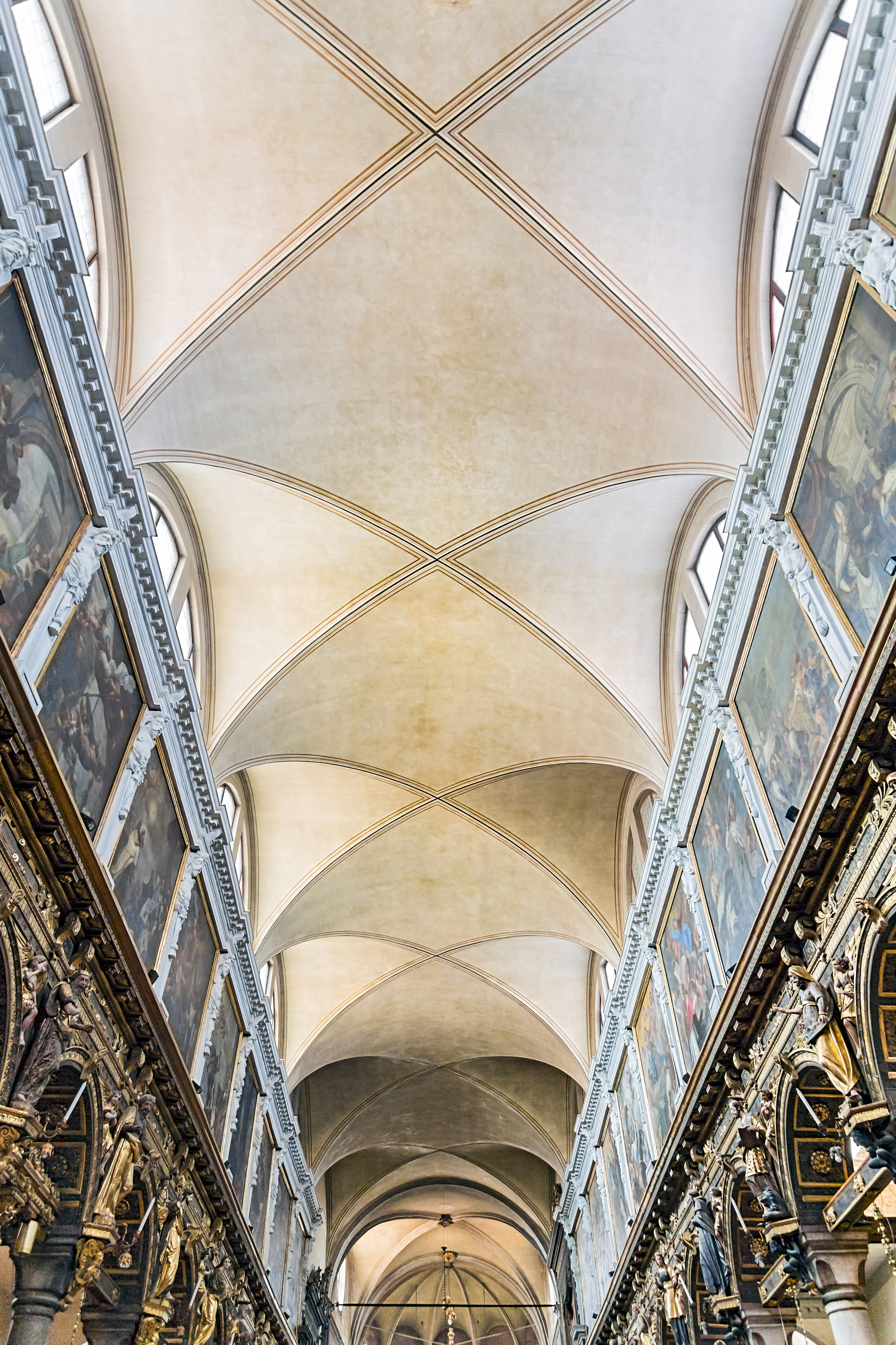 Santa Maria dei Carmini church in Venice. Groin vault by Giuseppe Sardi.